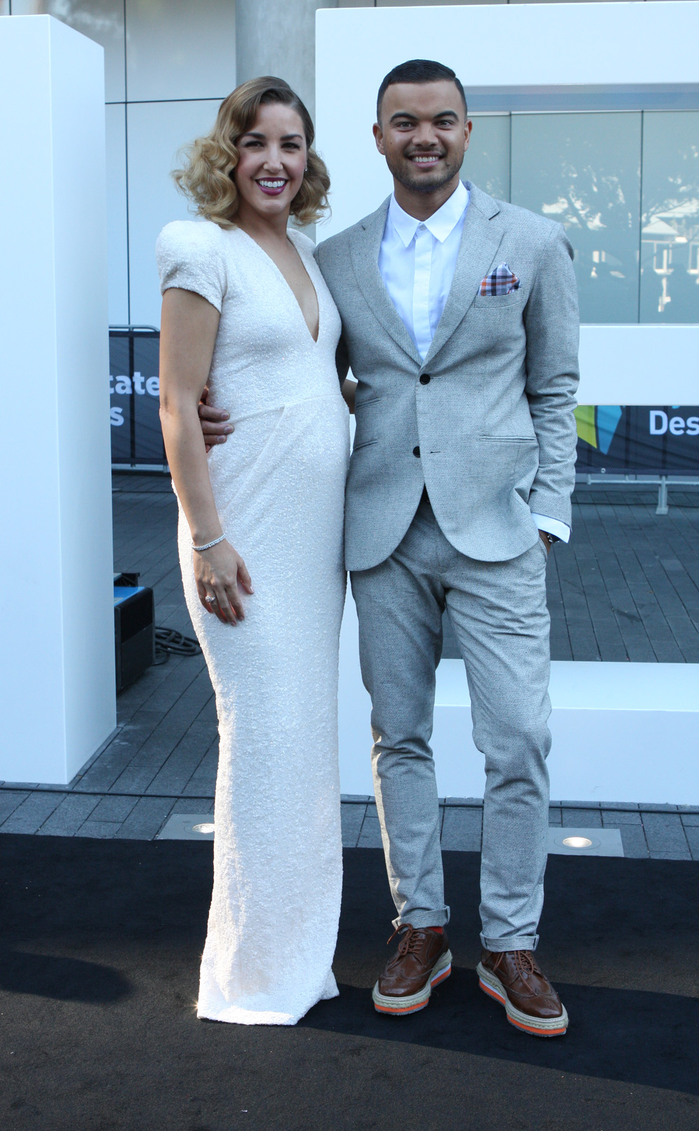 Jules Egan and Guy Sebastian at the ARIA Awards 2013 ceremony, 1 December 2013, Star Event Centre, Sydney